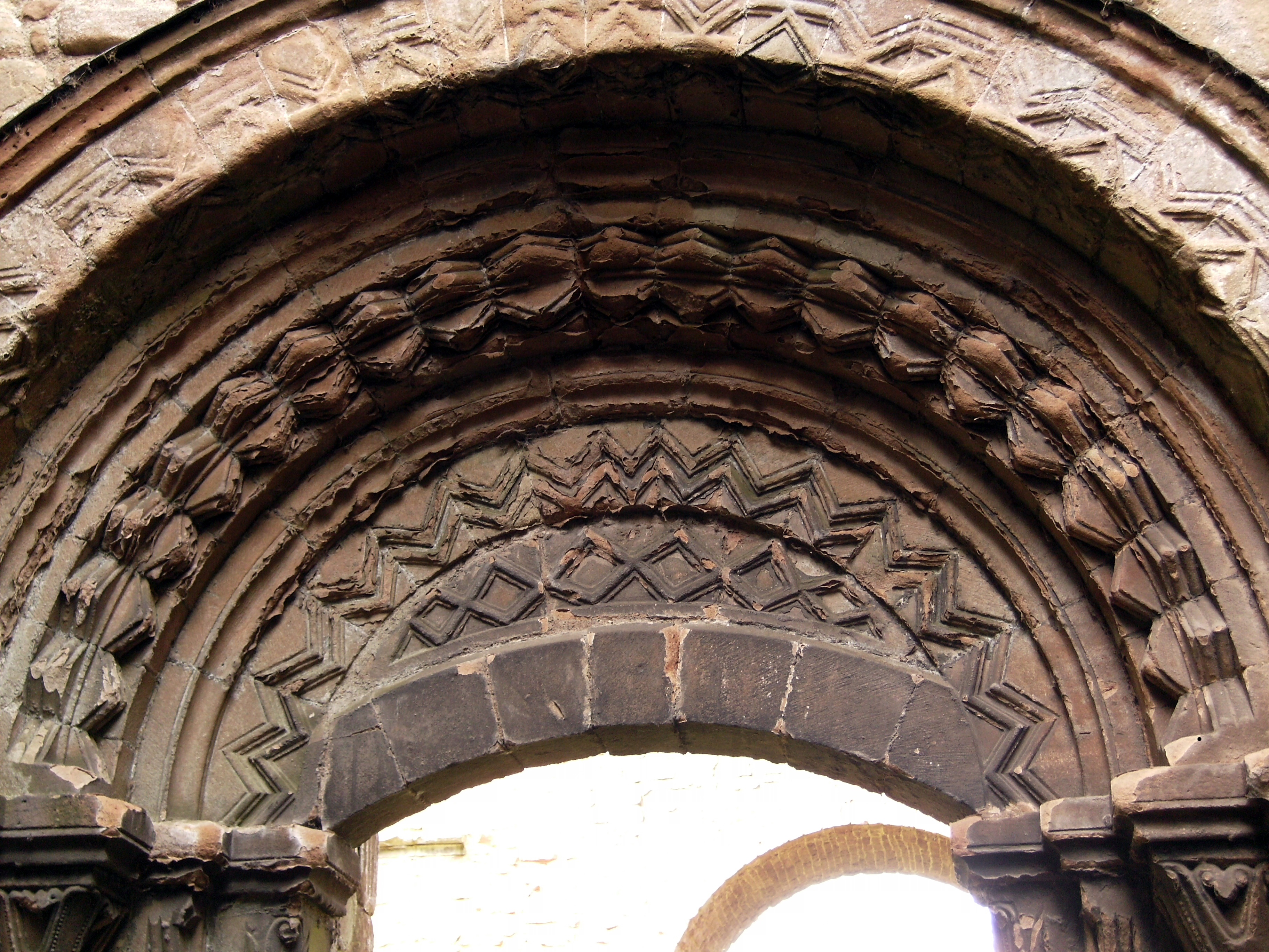 Tympanum over entrance on south side of the church. Lilleshall Abbey, Lilleshall, near Telford, Shropshire.